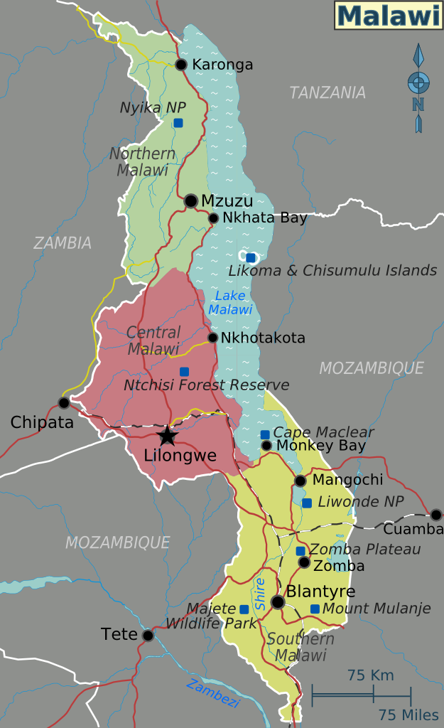 Map of Malawi with regions, major cities and other destinations noted (for use on Wikivoyage), English version